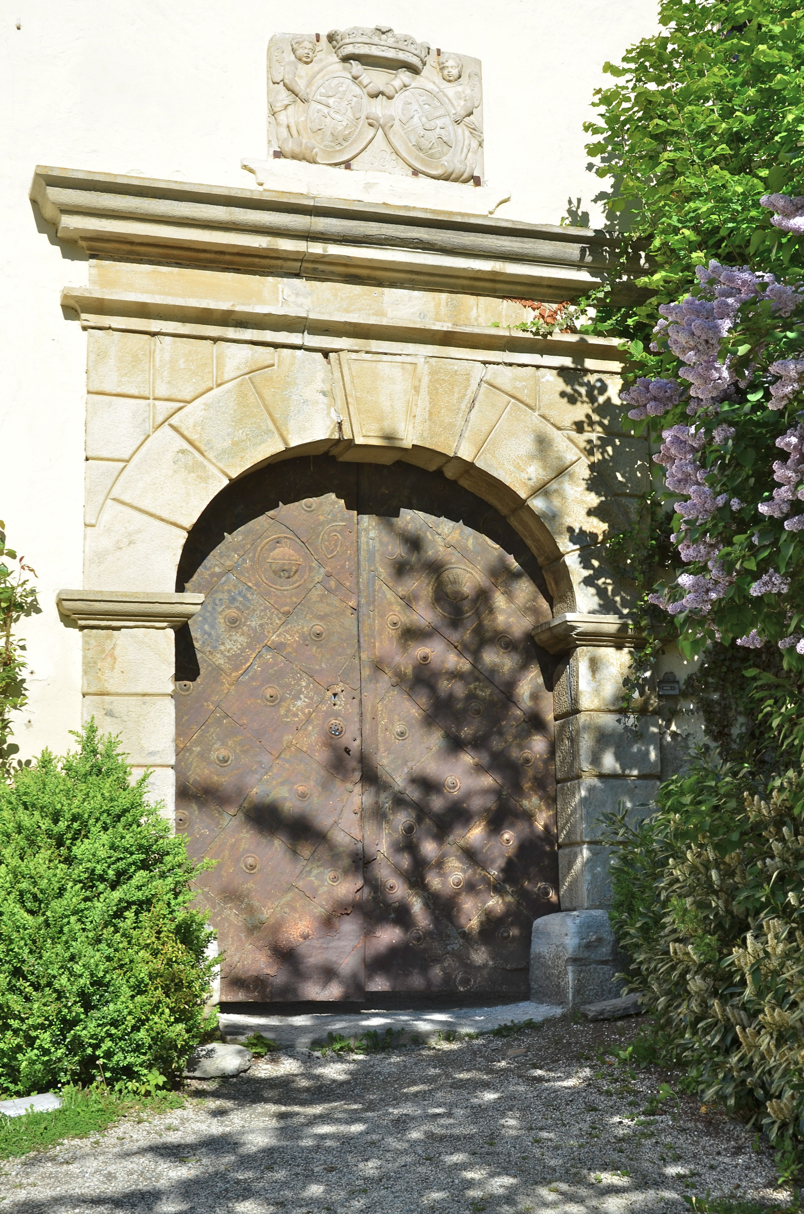 Rustication portal with metal doors of castle Moosburg, market town Moosburg, district Klagenfurt Land, Carinthia, Austria, EU